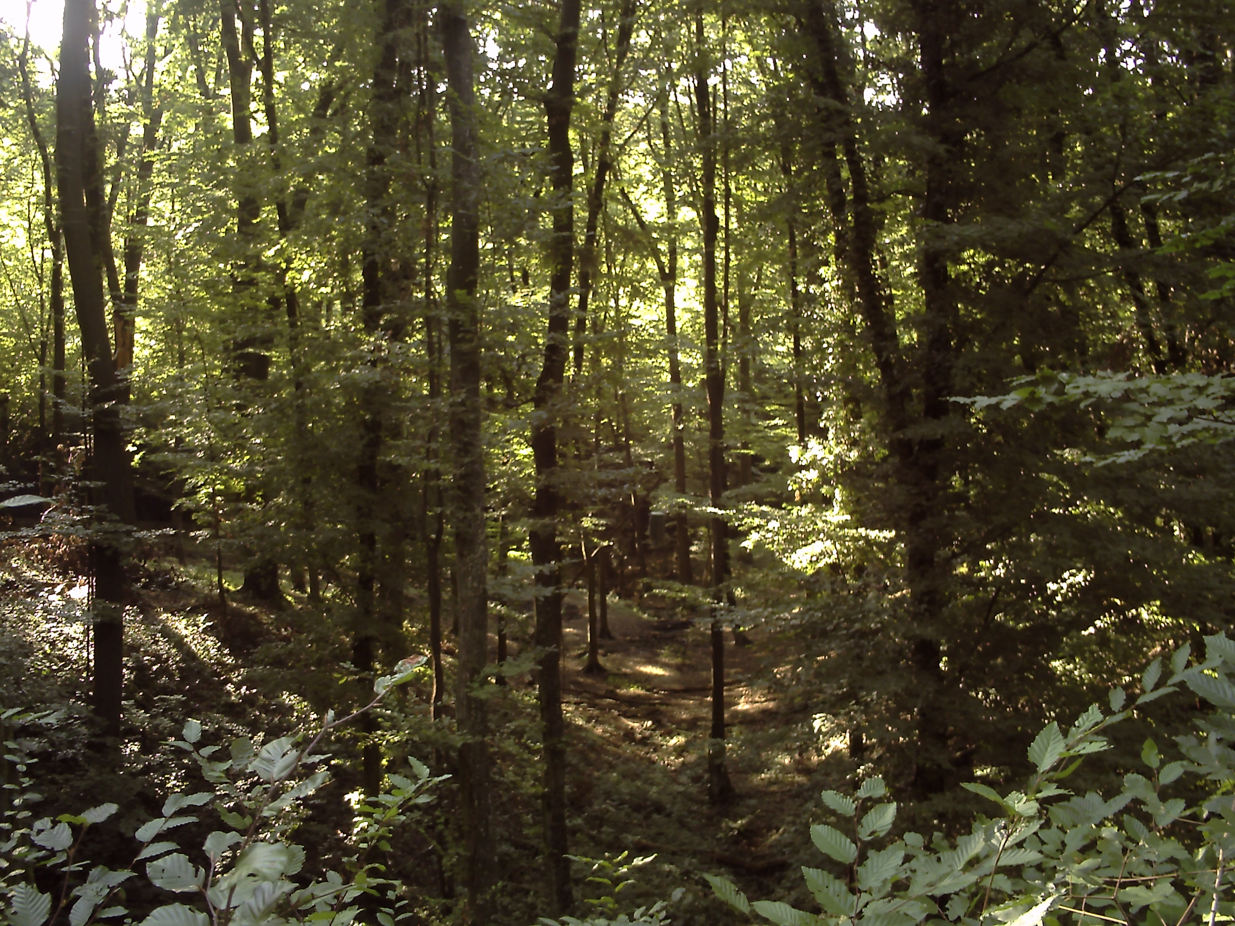 Beech wood, Hordós-völgy (Barrel valley), Szulimán, Hungary. A typical forest of Zselic.